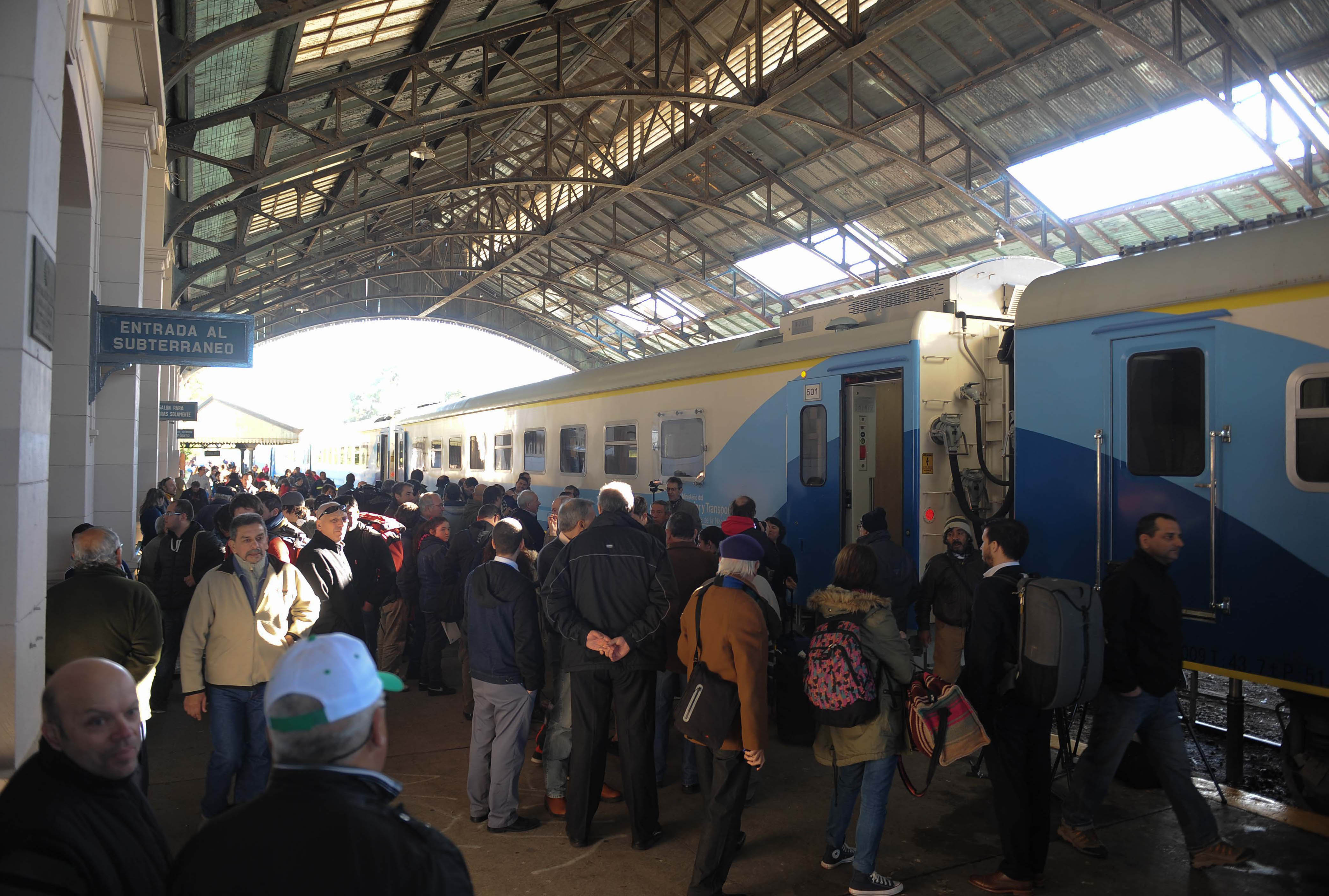 A Trenes Argentinos train ad Bahia Blanca Sud station.